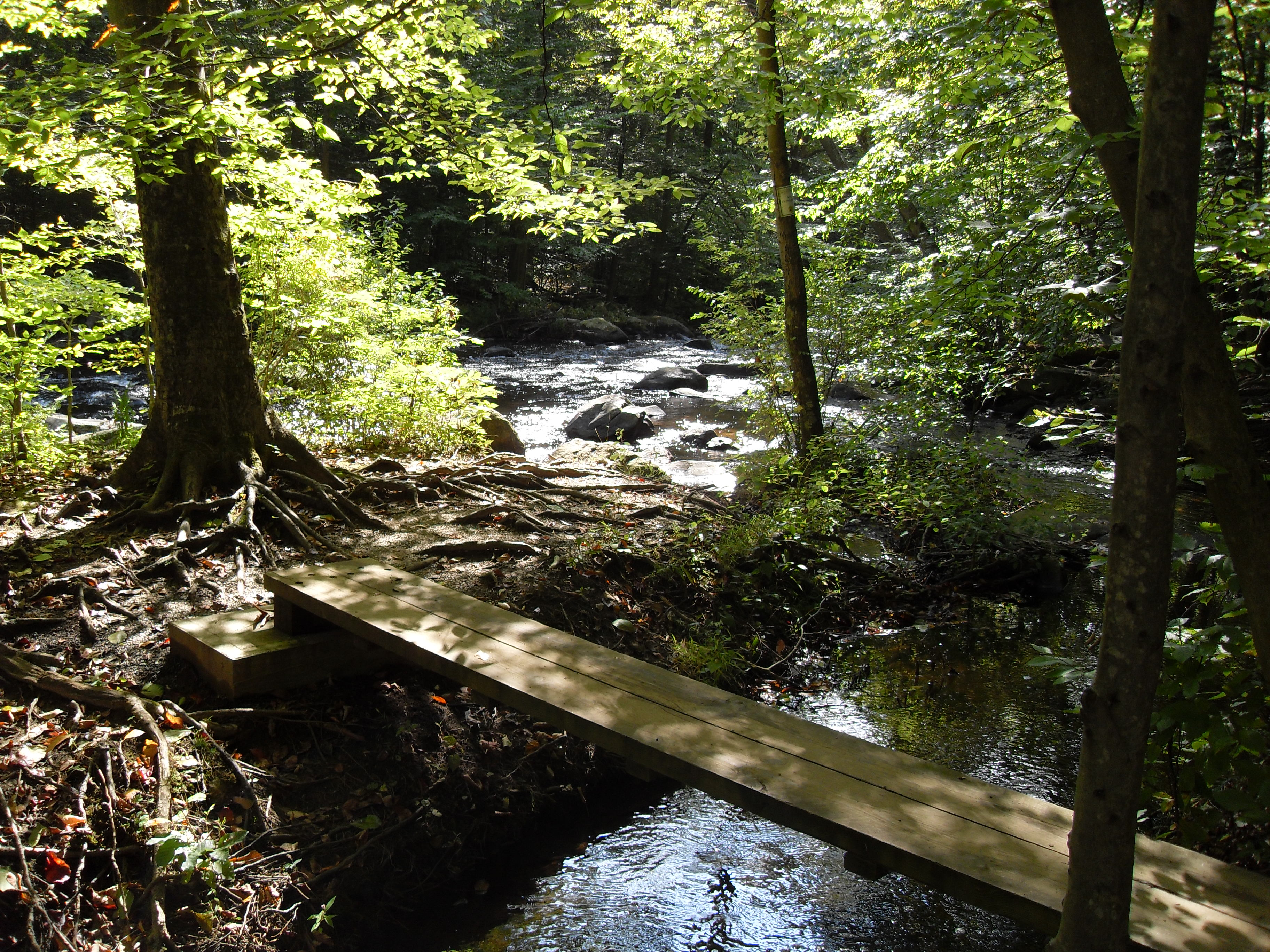 The Black River, Hacklebarney State Park.